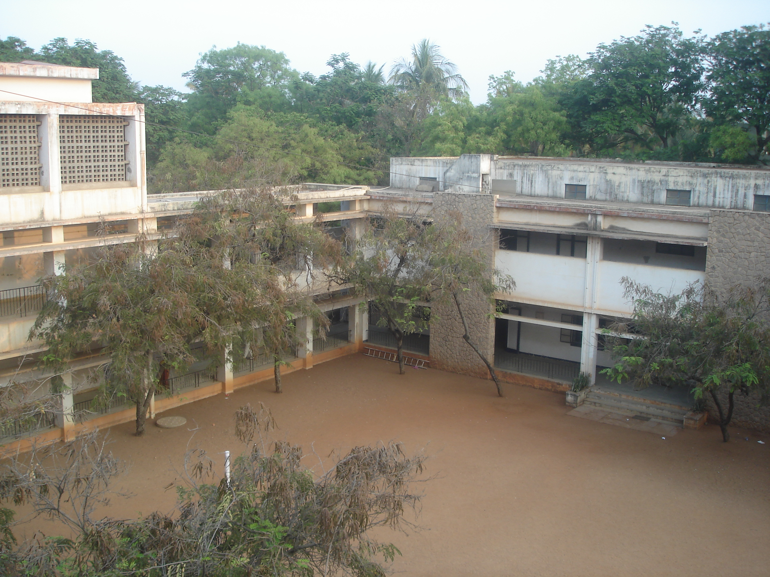 This image shows the craft hall building in TVSMHSS.